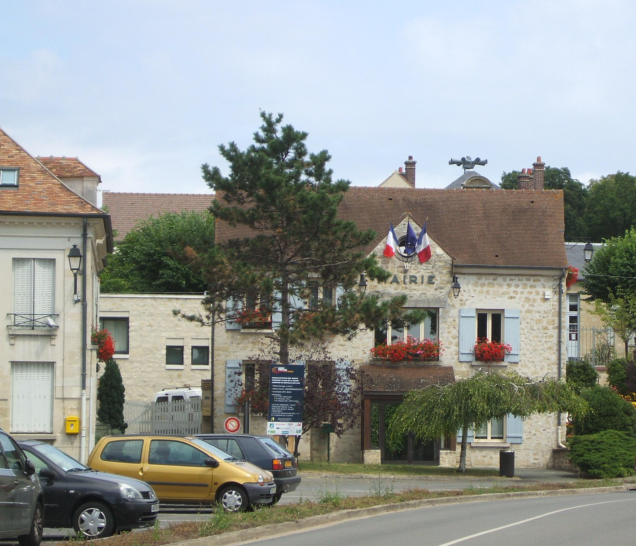 Town halls of neuville sur oise